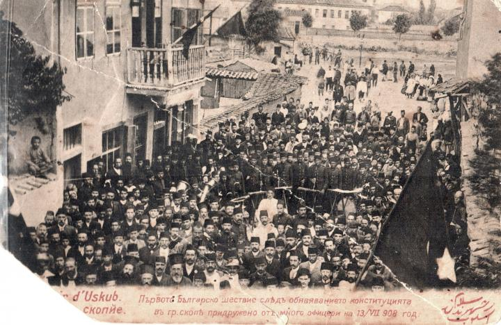 Bulgarian rally in Skopje after the Young Turk Revolution